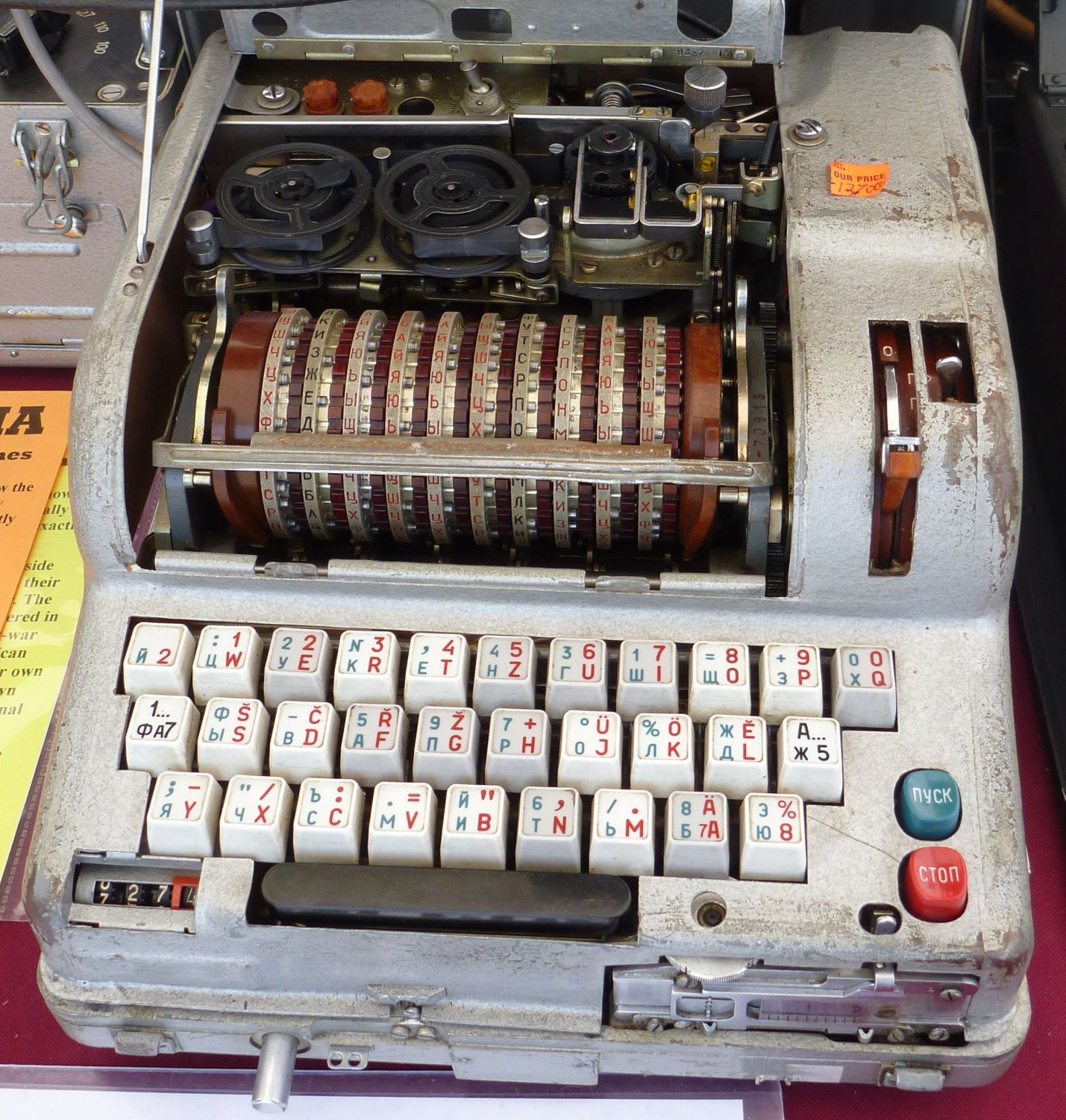 Russian Fialka cipher machine